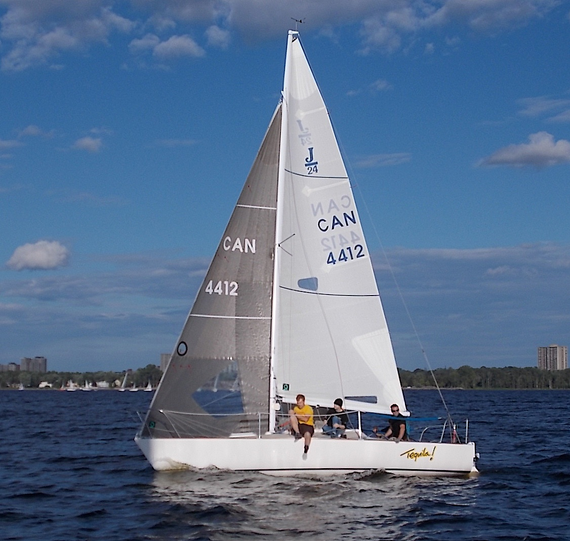 J/24 sailboat Tequila on Lac Deschênes, part of the Ottawa River, Ottawa, Ontario, Canada